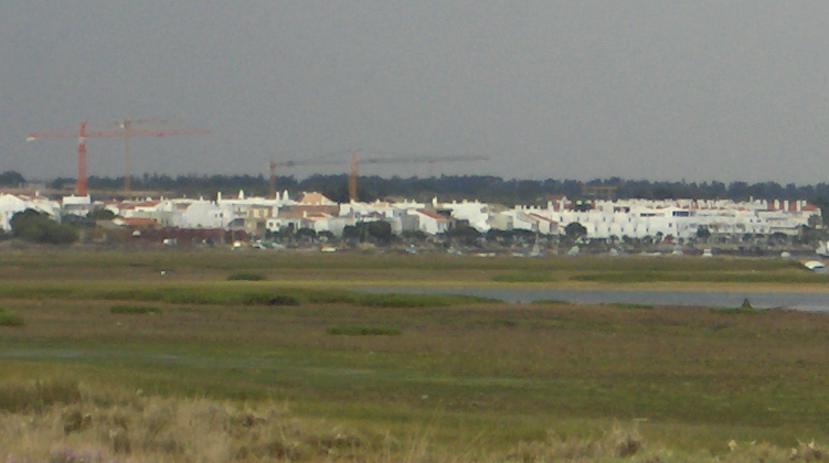 the village Cabanas de Tavira (Algarve, Portugal) as seen from the saltmarshes in Tavira from the west (to be used in an article about the village) - this was cropped from the original photo to give the buildings more conspicuousness